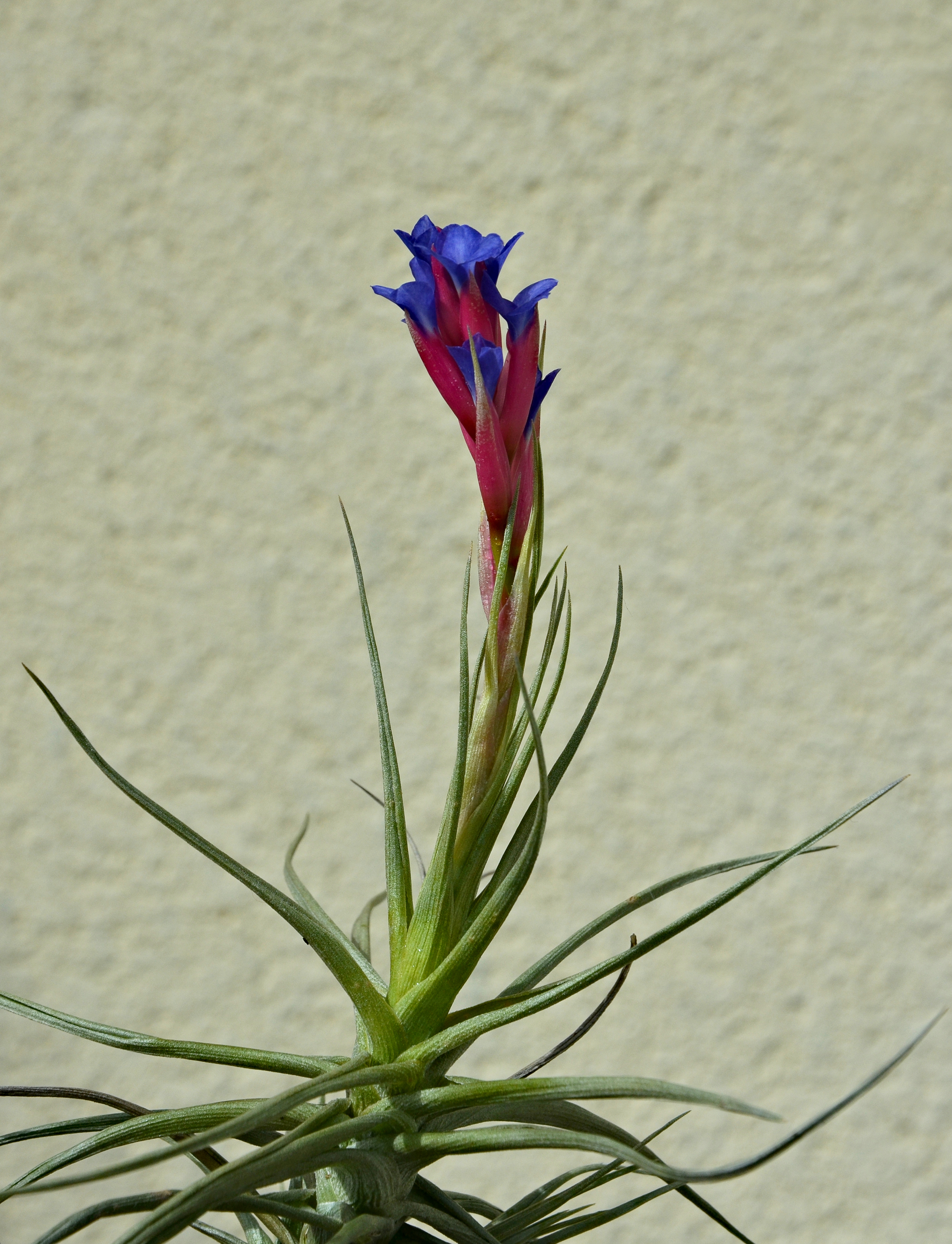 Air plant (Tillandsia aeranthos), inflorescence and leaves, veranda, France.